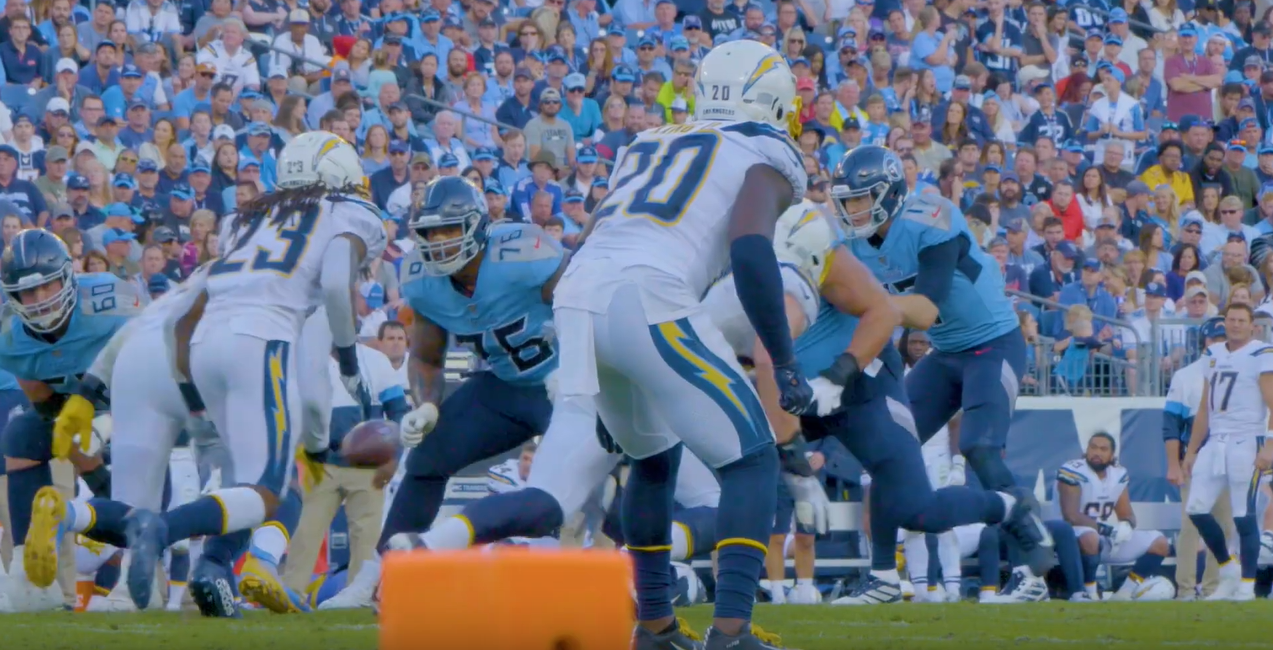 Desmond King 2019. Image from Timely 3rd Down Conversions vs. Chargers | Beneath the Surface, ~ 01:04.